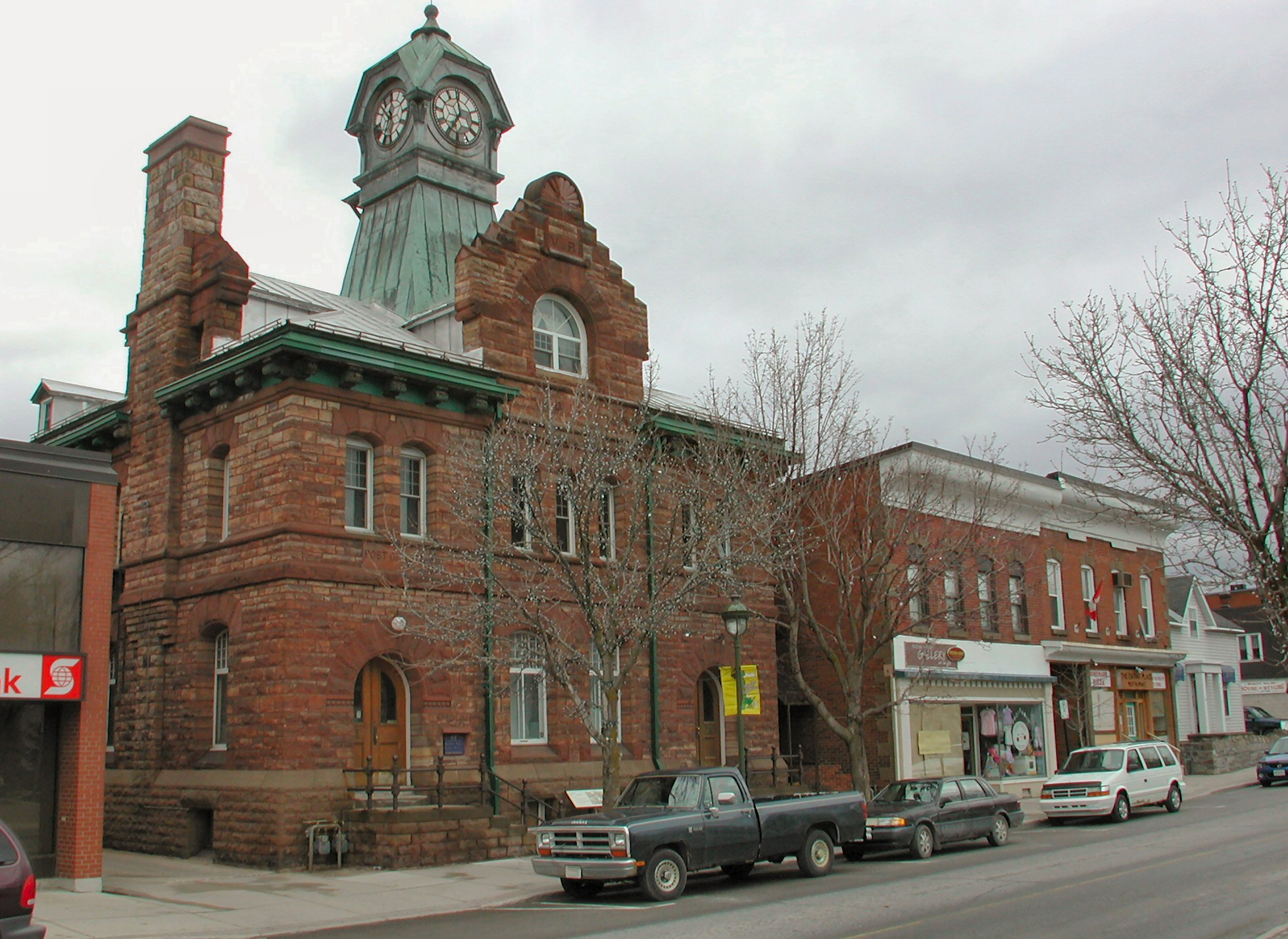 Historic Customs Building in Carleton Place, Ontario, Canada.